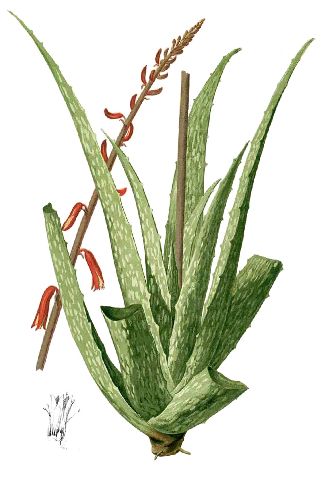 Aloe, Plate from book